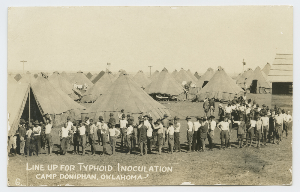 Title: Line up for Typhoid Inoculation, Camp Doniphan, Oklahoma Creator: Unknown Date: ca. 1917-1918 Part Of: border troops and the Mexican Revolution Place: Lawton, Comanche County, Oklahoma Physical Description: 1 photographic print (postcard): gelatin silver; 9 x 14 cm File: ag1982_0015_144r_typhoid_opt.jpg Rights: Please cite DeGolyer Library, Southern Methodist University when using this file. A high-resolution version of this file may be obtained for a fee. For details see the web page. For other information, . For more information and to view the image in high resolution, View the Mexico